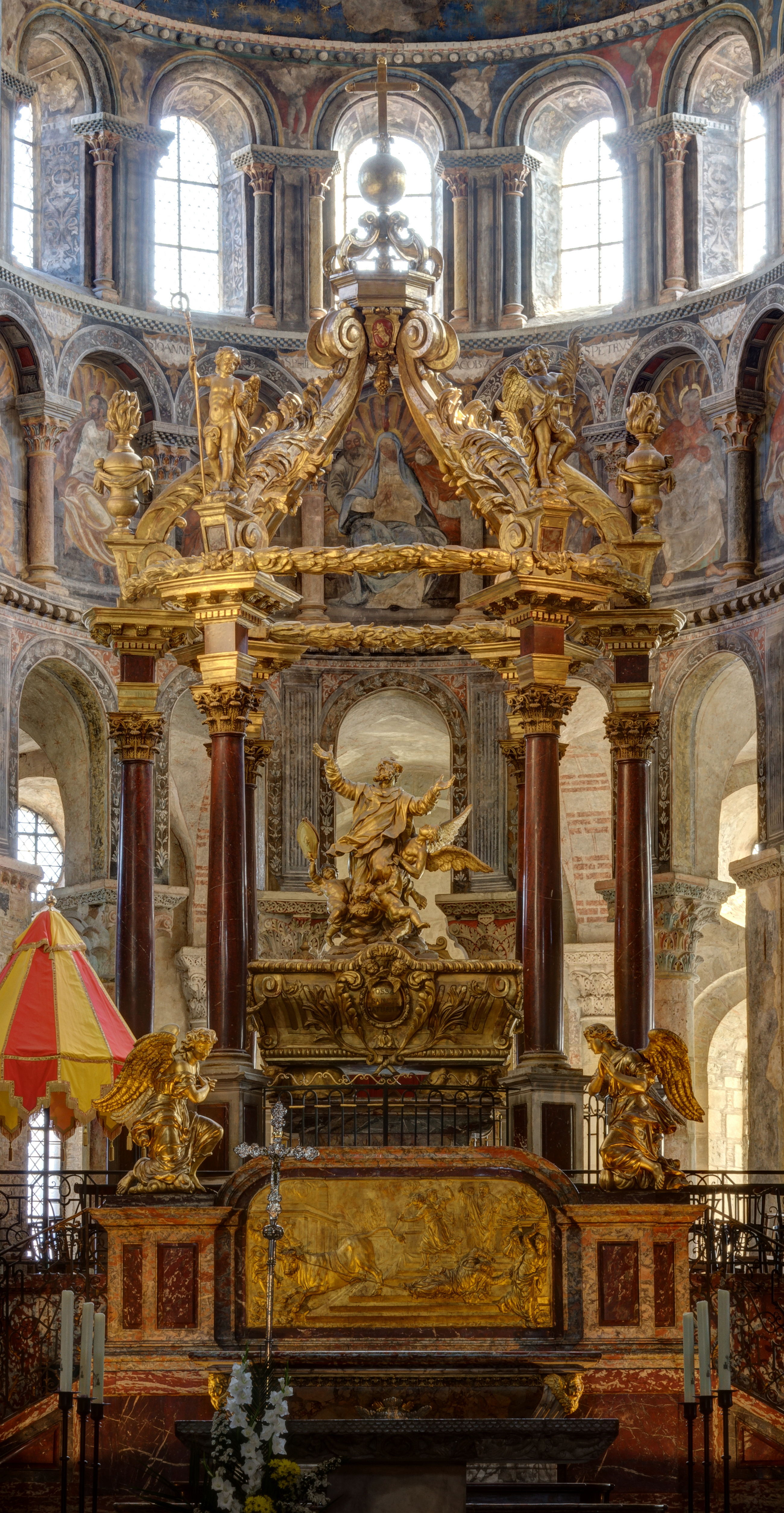 Tomb of Saint Saturnin in Basilique Saint-Sernin in Toulouse: Martyr of Saturnin draged by a beaf on the steps of the roman capitol Inscription OSSA SANCTI SATURNINI (the bones of Saint Saturnin)